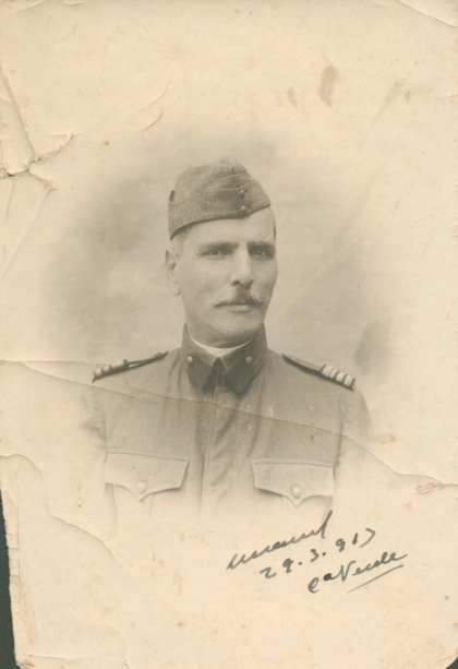 Gomes da Costa (Presidentof Portugal,1926) in 1891